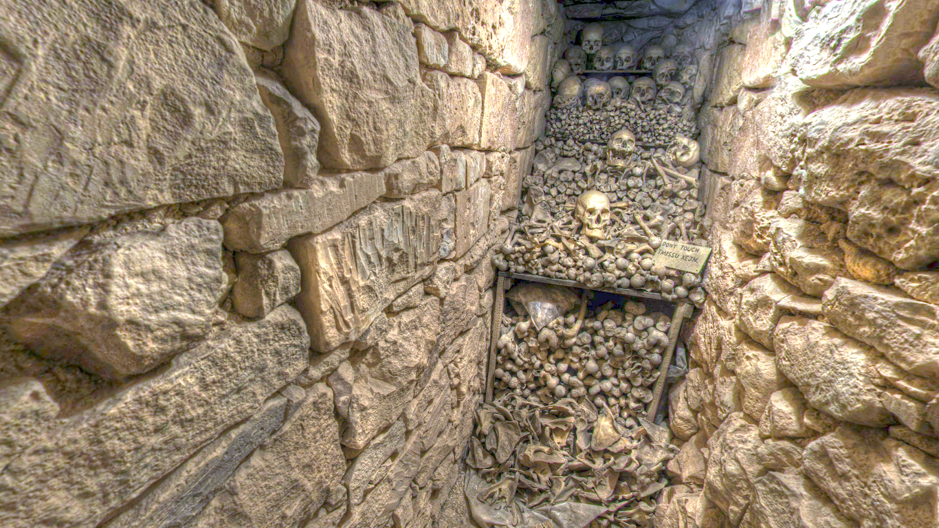 Secret passage in Chapel of St Gregory, Zejtun